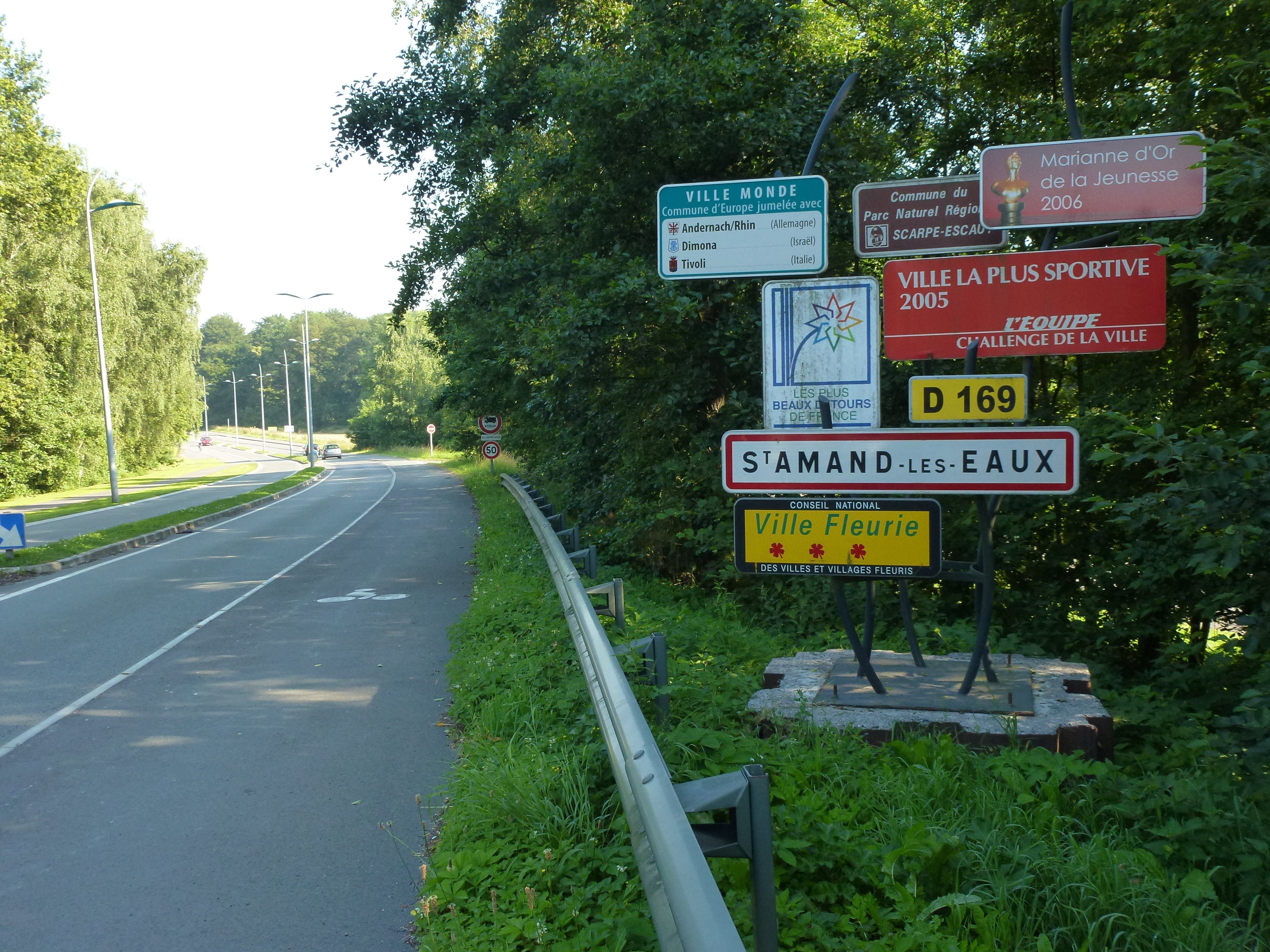 Saint-Amand-les-Eaux (Nord, Fr) city limit sign